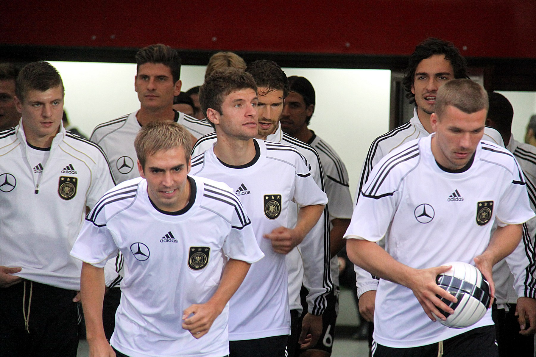 Qualifying for the UEFA Euro 2012 Austria (red shirt) vs. Germany (white Shirt) 1:2 (0:1) at 2011-06-03 in Vienna (Ernst-Happel-Stadion) — The photo shows (fron left to right): Toni Kroos (FC Bayern München), Mario Gómez (FC Bayern München), FC Bayern MünchenPhilipp Lahm (FC Bayern München), Thomas Müller (FC Bayern München), Arne Friedrich (VfL Wolfsburg), Sami Khedira (Real Madrid), Mats Hummels (Borussia Dortmund), Lukas Podolski (en:).